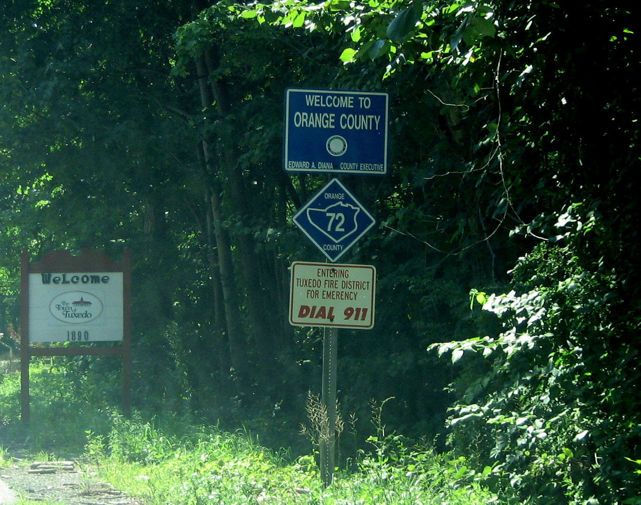 An example of Orange County, New York's unique county route shields along westbound CR 72 at the Rockland/Orange County line in Tuxedo Park, New York.